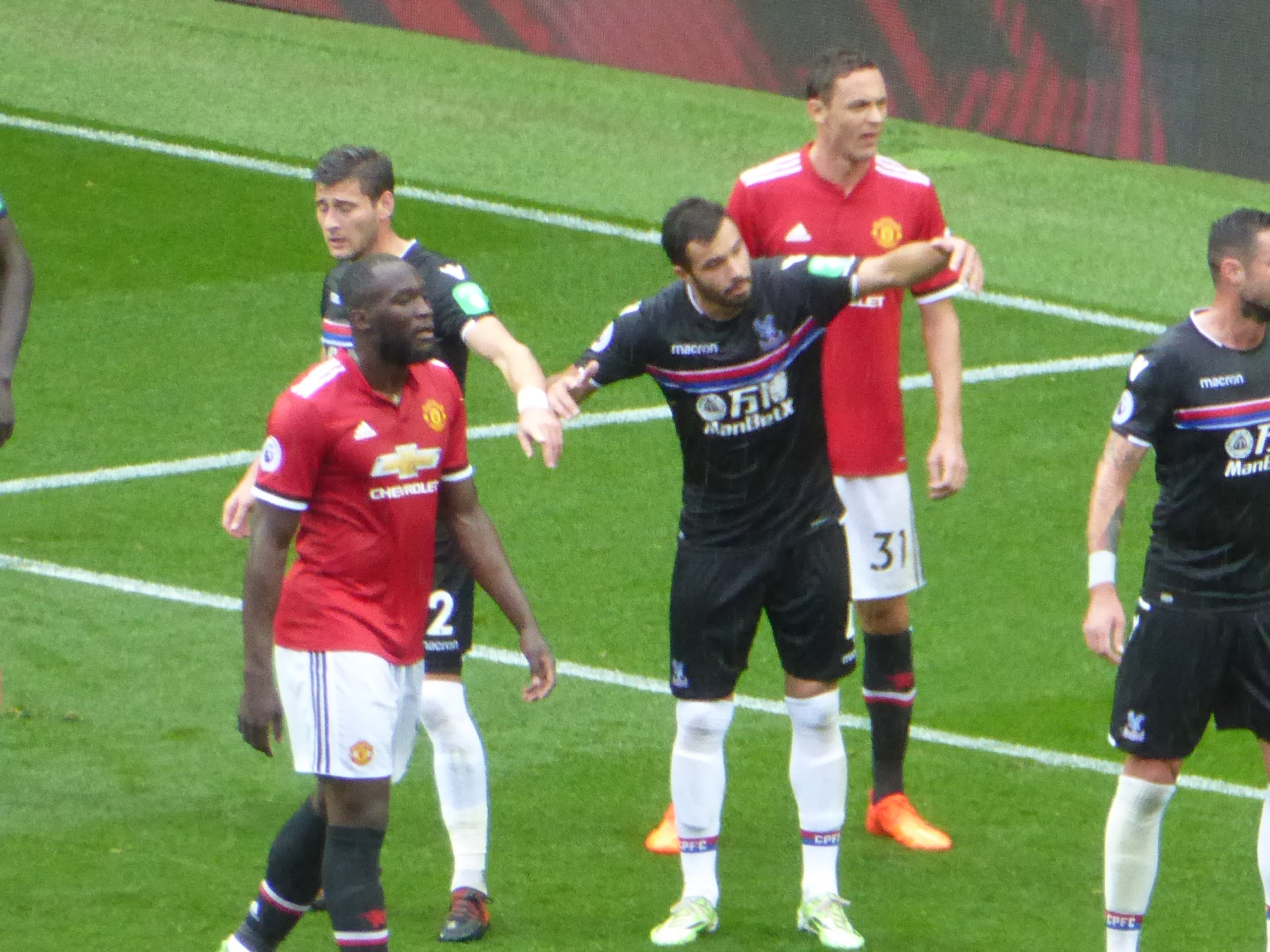 Manchester United v Crystal Palace (4-0), Premier League, Old Trafford, Manchester, Greater Manchester, England, 30 September 2017